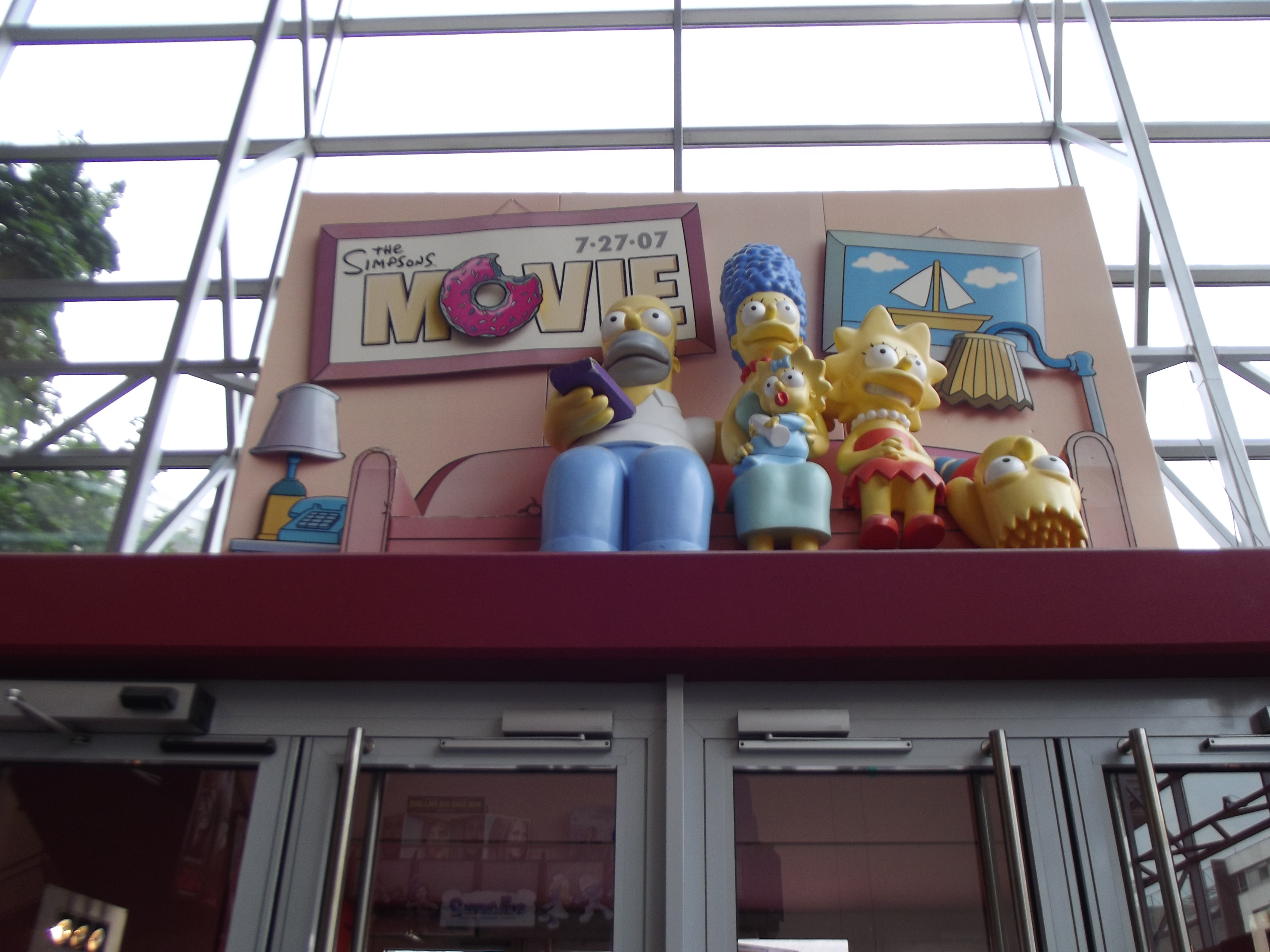 Simpson Statues